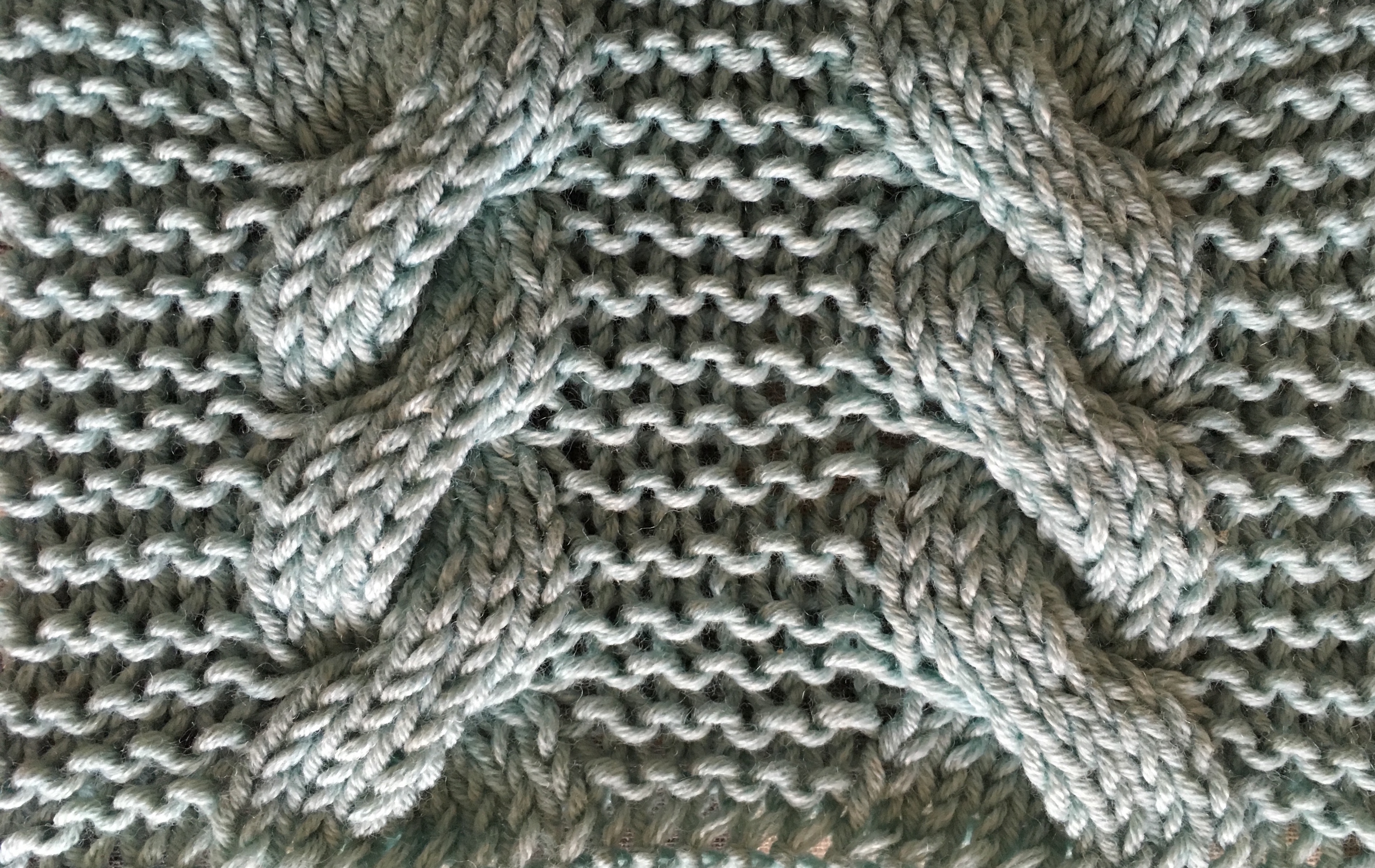 Cable knitting, one left leaning and one right leaning